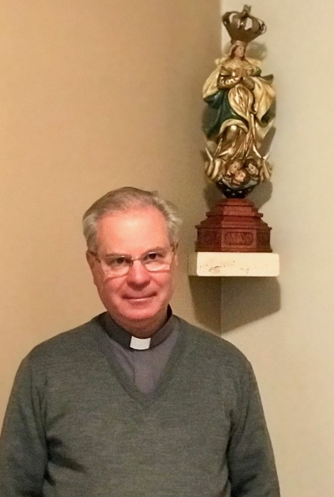 Bishop Pedro Ignacio Wolcan Olano, Uruguay